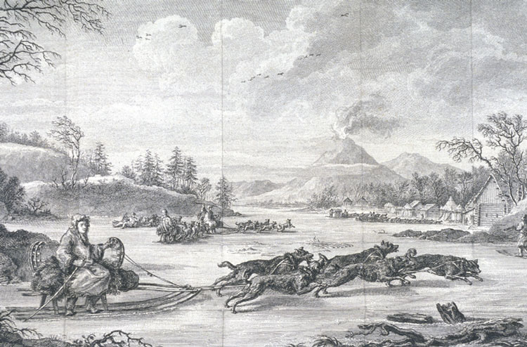 From source page: "The plate displayed probably is intended to show Lesseps himself, on a dog sled, and there is a volcano actively erupting in the background. Lesseps did not identify the volcano in the illustration, but it was probably Tolbachik, which he mentions later in the text by name."